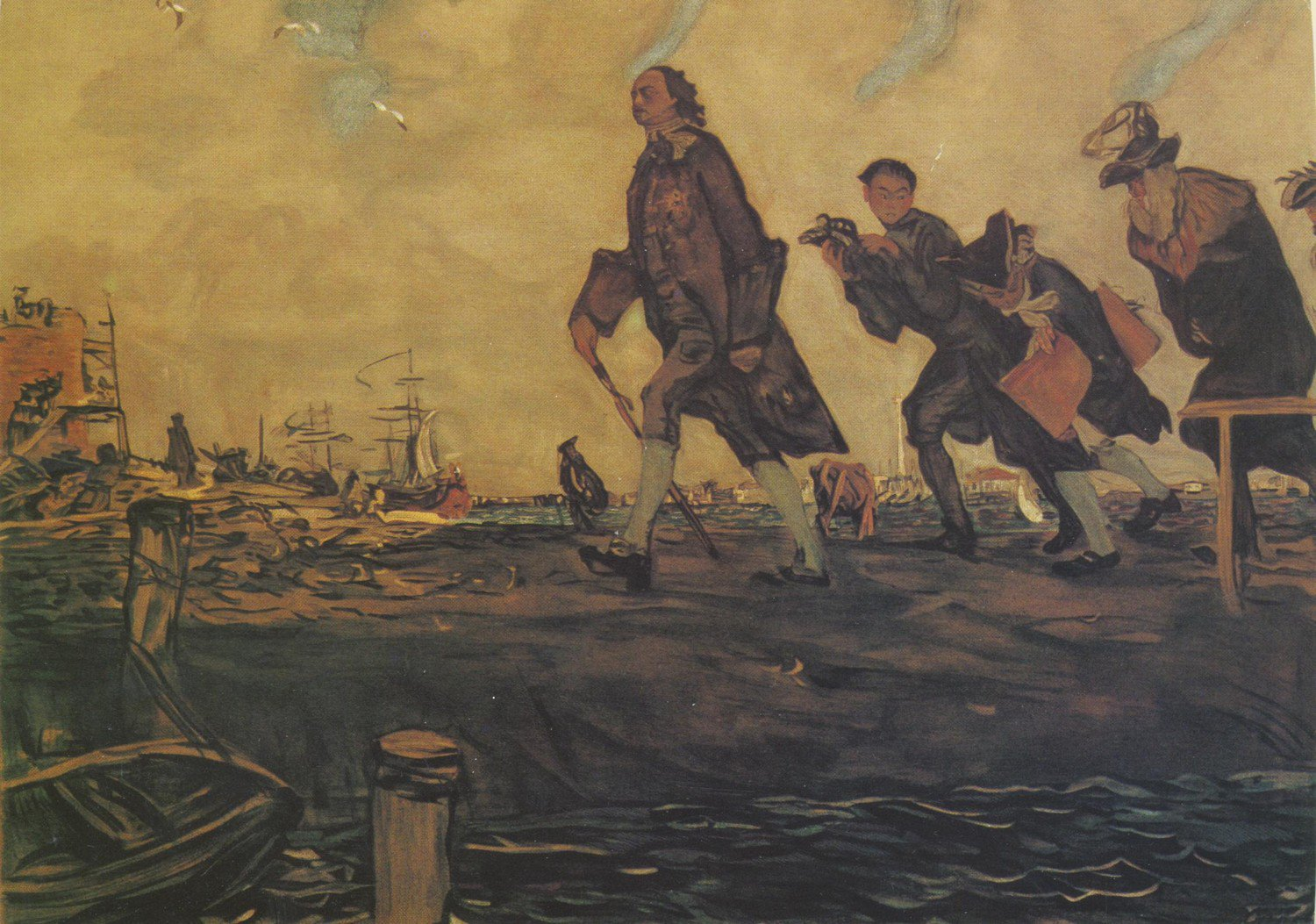 Peter the Great. Detail. 1907. Tempera on cardboard. The Tretyakov Gallery, Moscow, Russia.